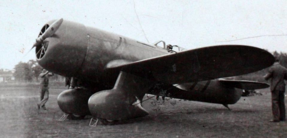 Repository: San Diego Air and Space Museum ArchiveWilliam Munger worked for the Granville Brothers on several projects, including the Gee Bees. This collection documents his life in aviation.